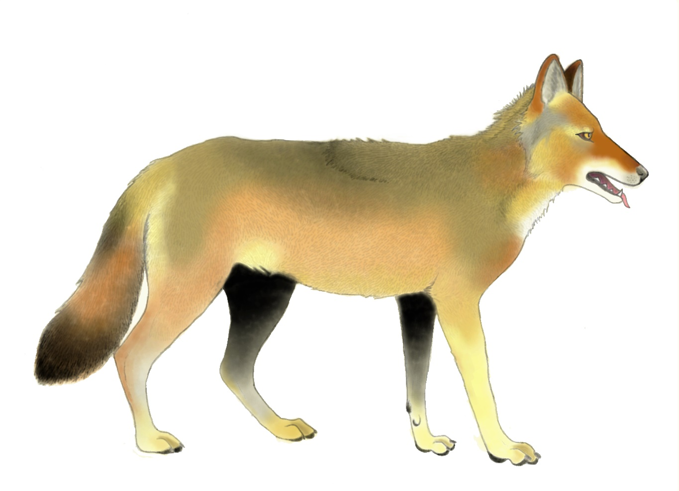 Illustration of Canis arnensis based on skeletal mount in paleontological museum in Florence. Colours based on Canis anthus lupaster